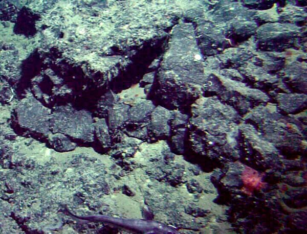 "This image of the seafloor on Patton Seamount in the Gulf of Alaska shows the type of rocks we expect to find. Most of the rocks are fist- to head-sized chunks of basalt (a black volcanic rock.)"